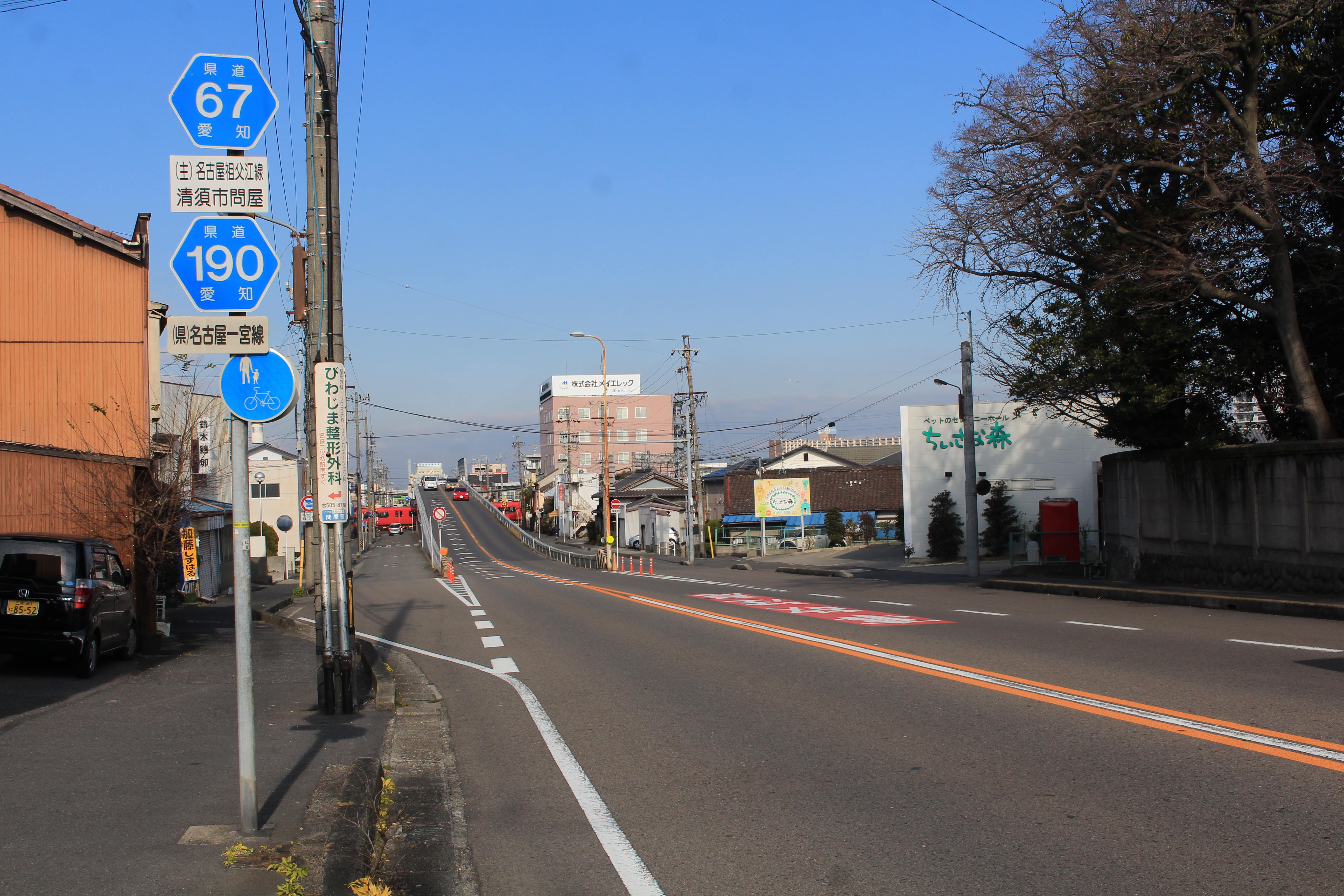 Aichi prefectural road route 67 and 190 in Kiyosu, Aichi prefecture, Japan.